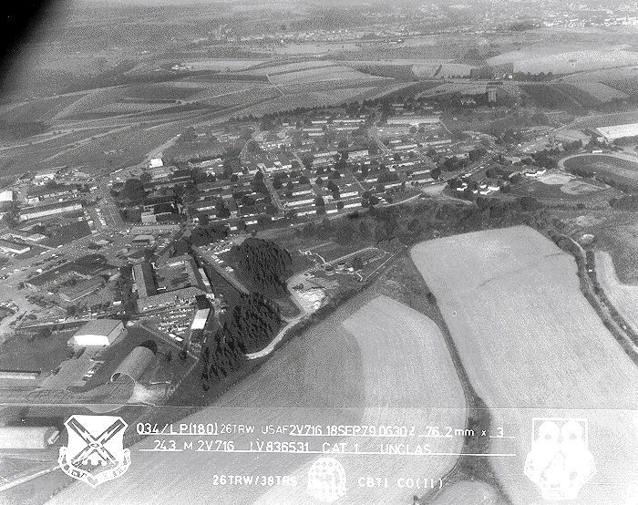 RF-4C photo of Zweibrucken Air Base, West Germany, 1979